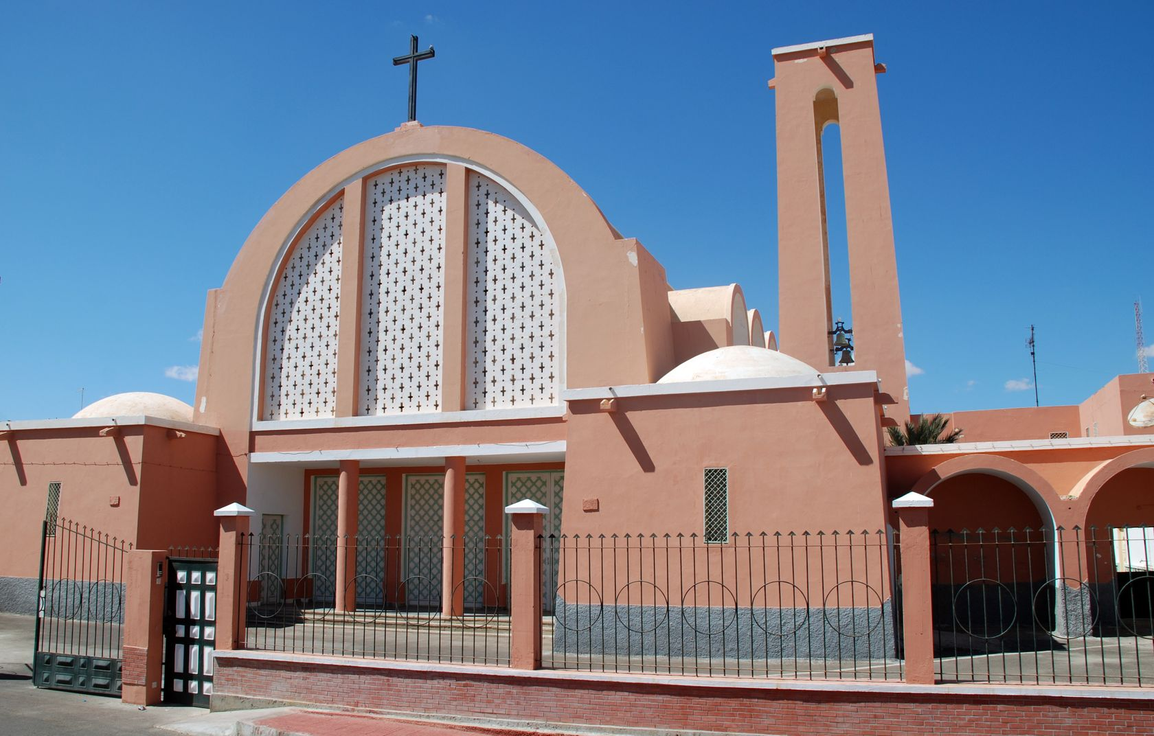 El Aaiún, Western Sahara, church